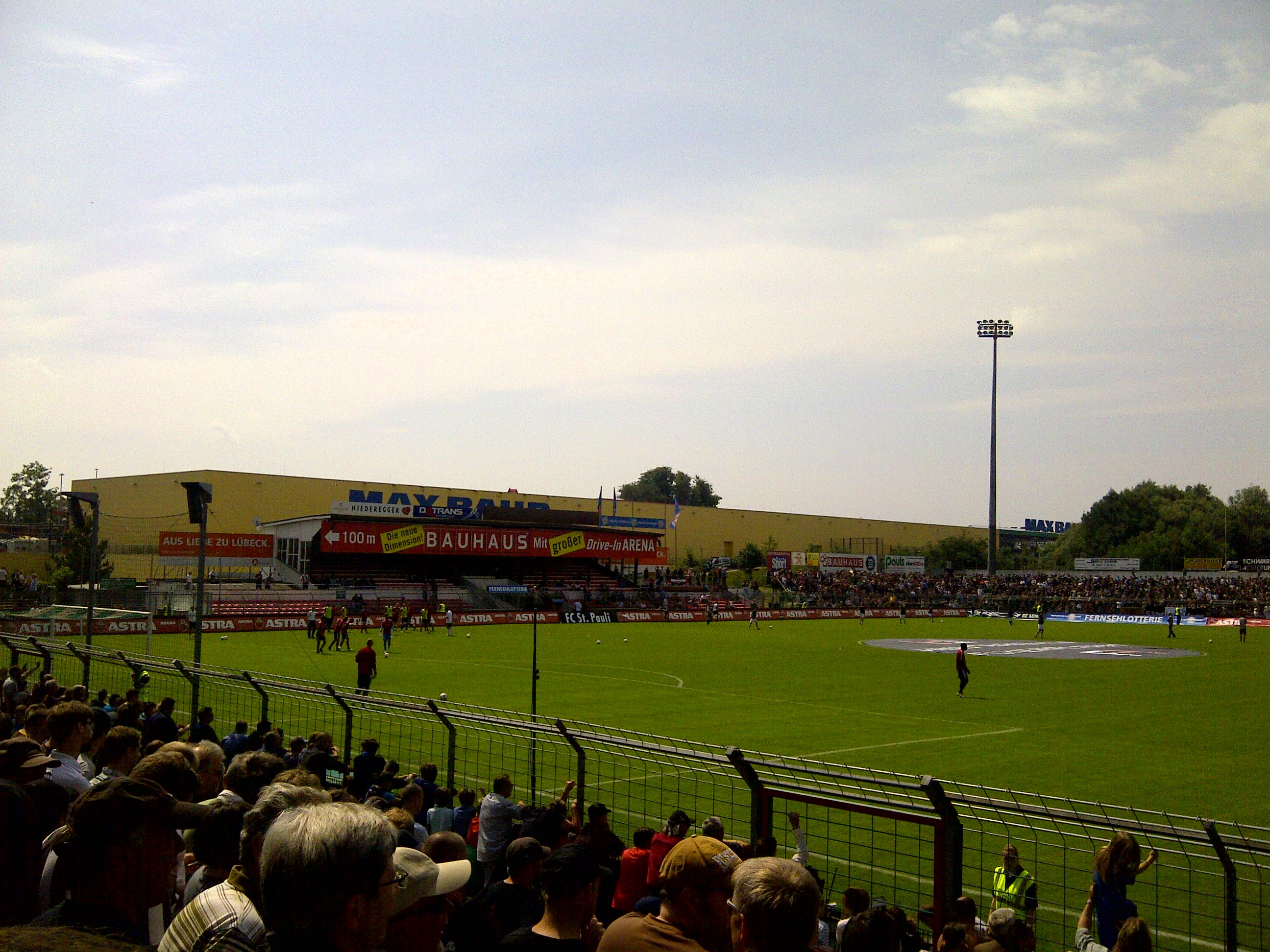 View to the back straight at Lohmühle Stadion in Lübeck, Germany